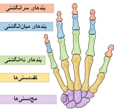 Persian translation of the scheme of human hand bones